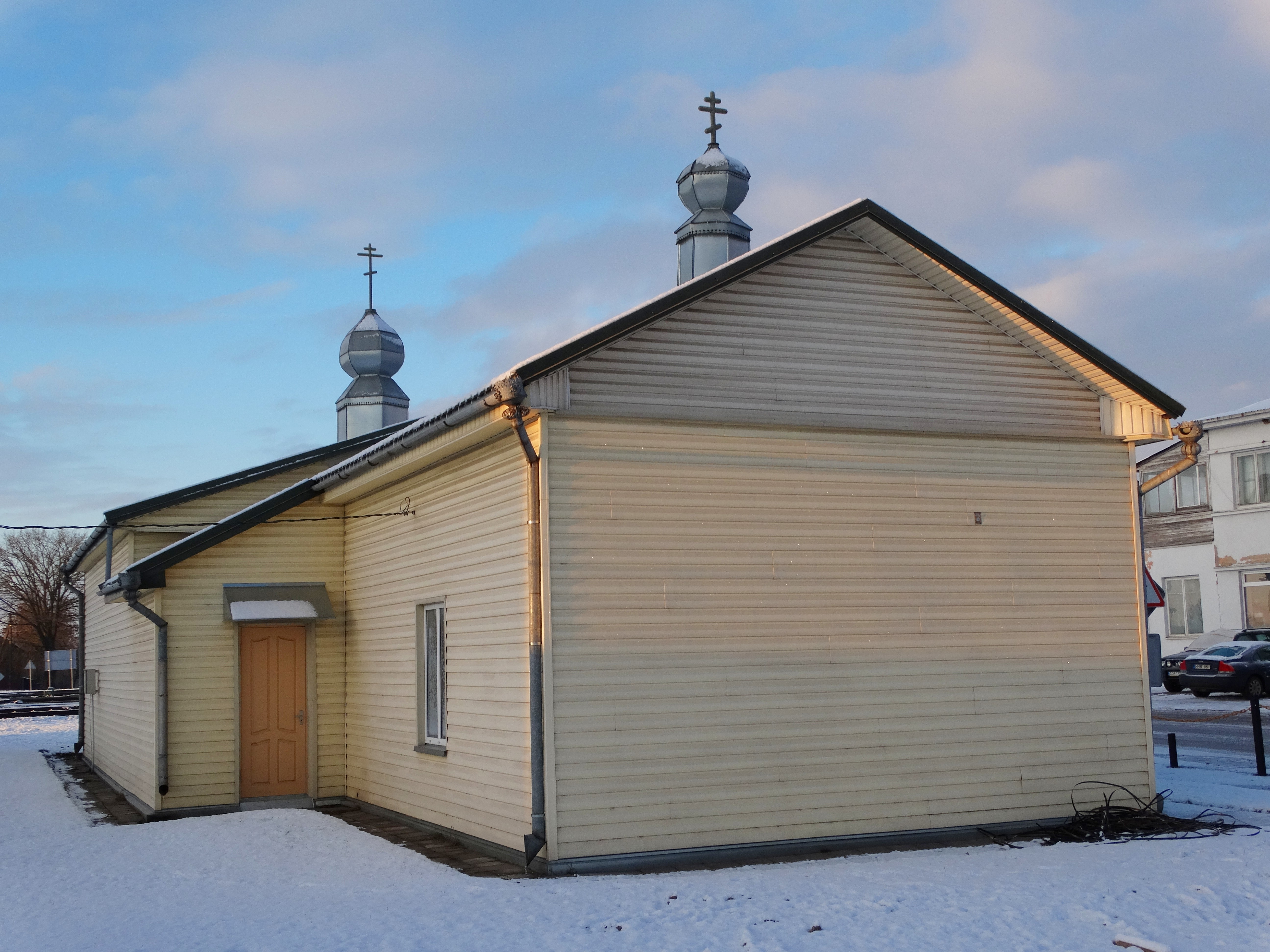 Orthodox Church of Old Believers in Radviliškis, Lithuania